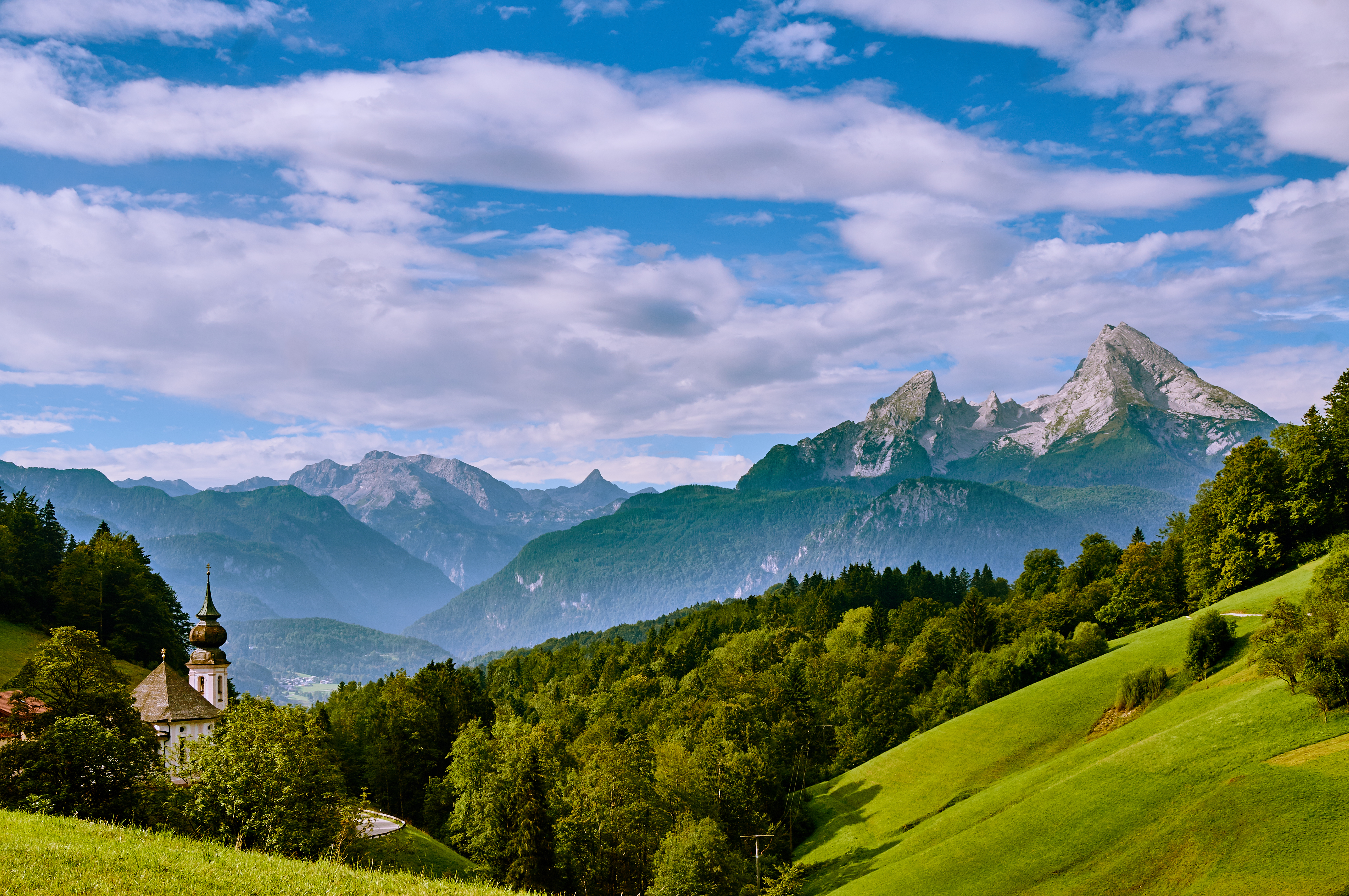 The church of Maria Gern, Berchtesgaden, Bavaria, Germany, and the Watzmann. This is a photograph of an architectural monument.